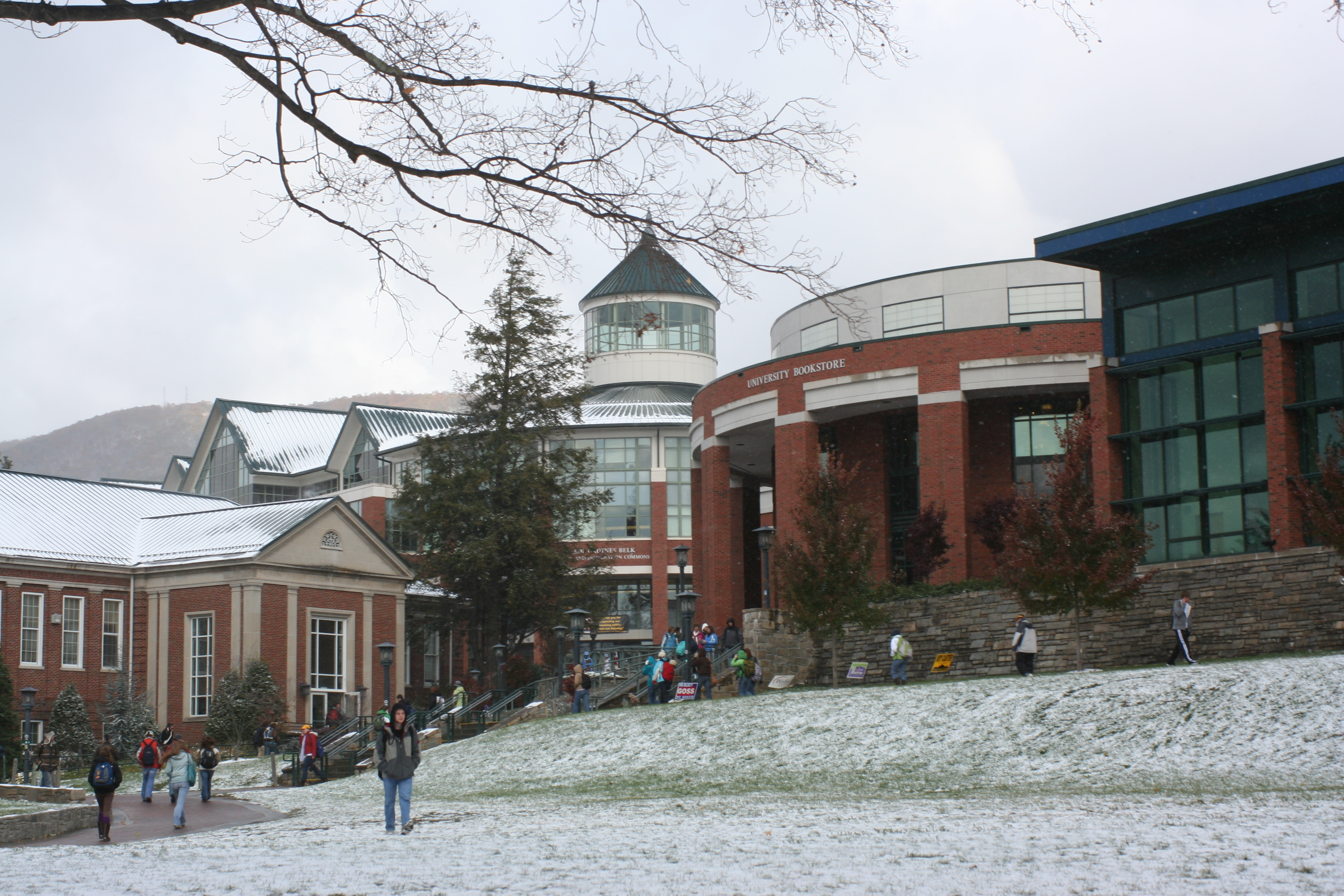 A view towards the library and student union from Sanford Mall at Appalachian State